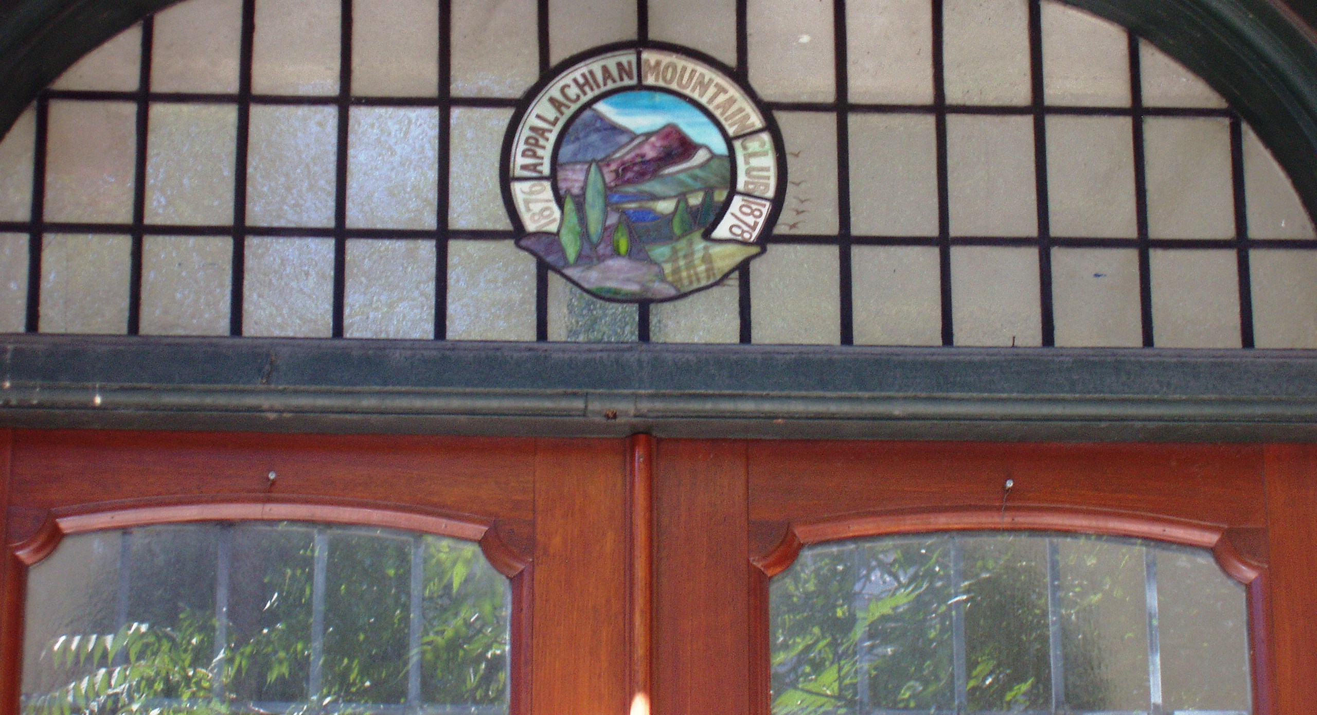 Appalachian Mountain Club (AMC), founded 1876, headquarters at 5 Joy Street, Boston, Massachusetts. Photograph taken by me, July 2005.